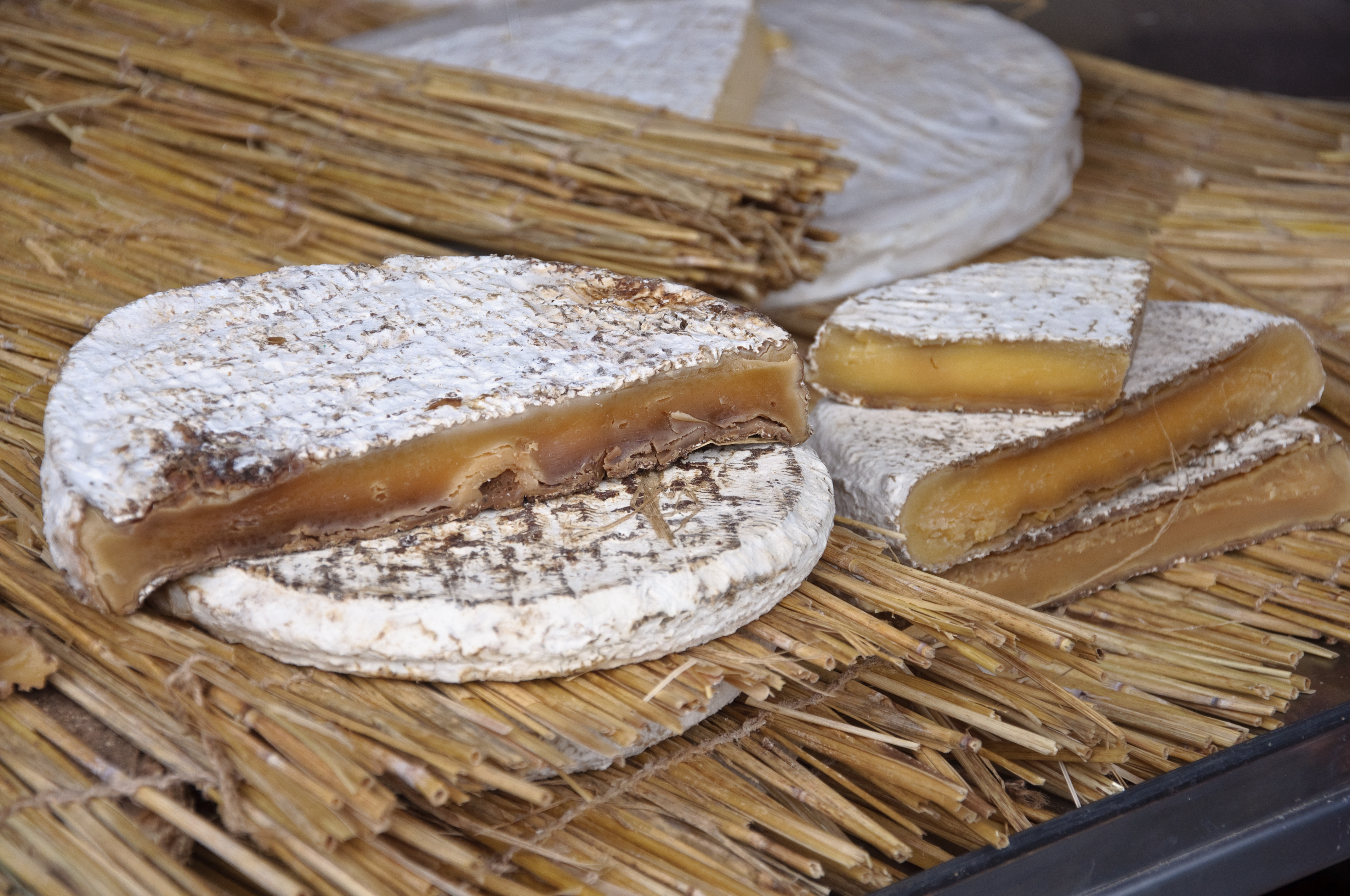 Brie noir (='black Brie'), an aged brie, here on sale on the market of the town named Coulommiers (Seine-et-Marne, France).